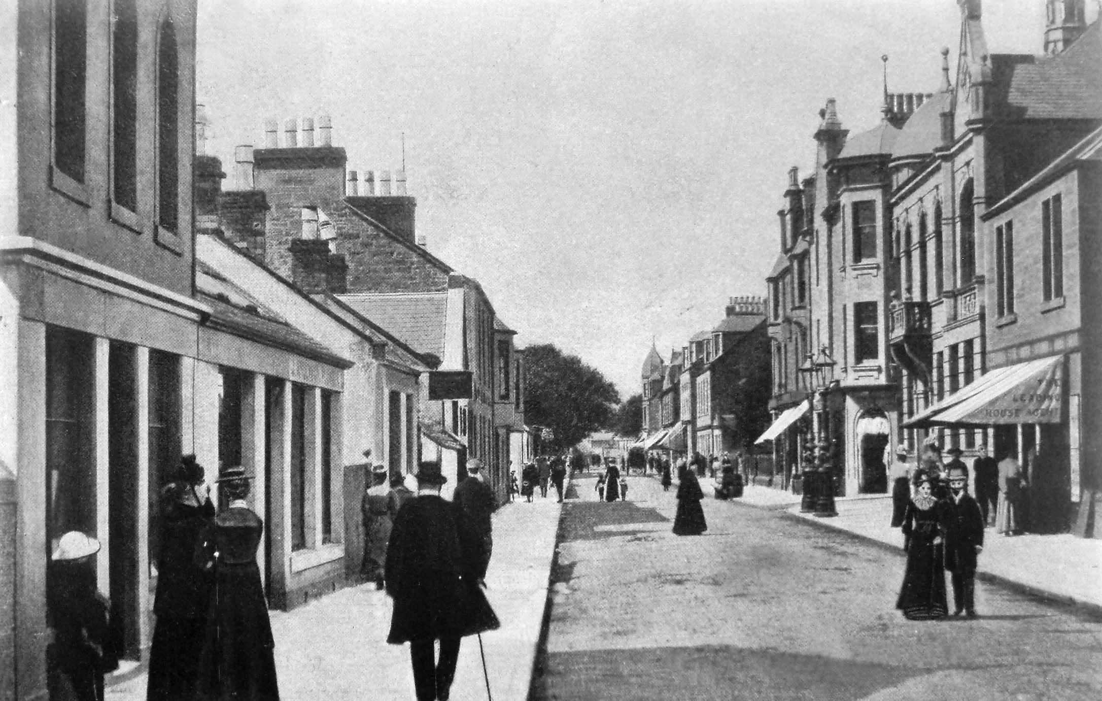 Carnoustie, circa 1900